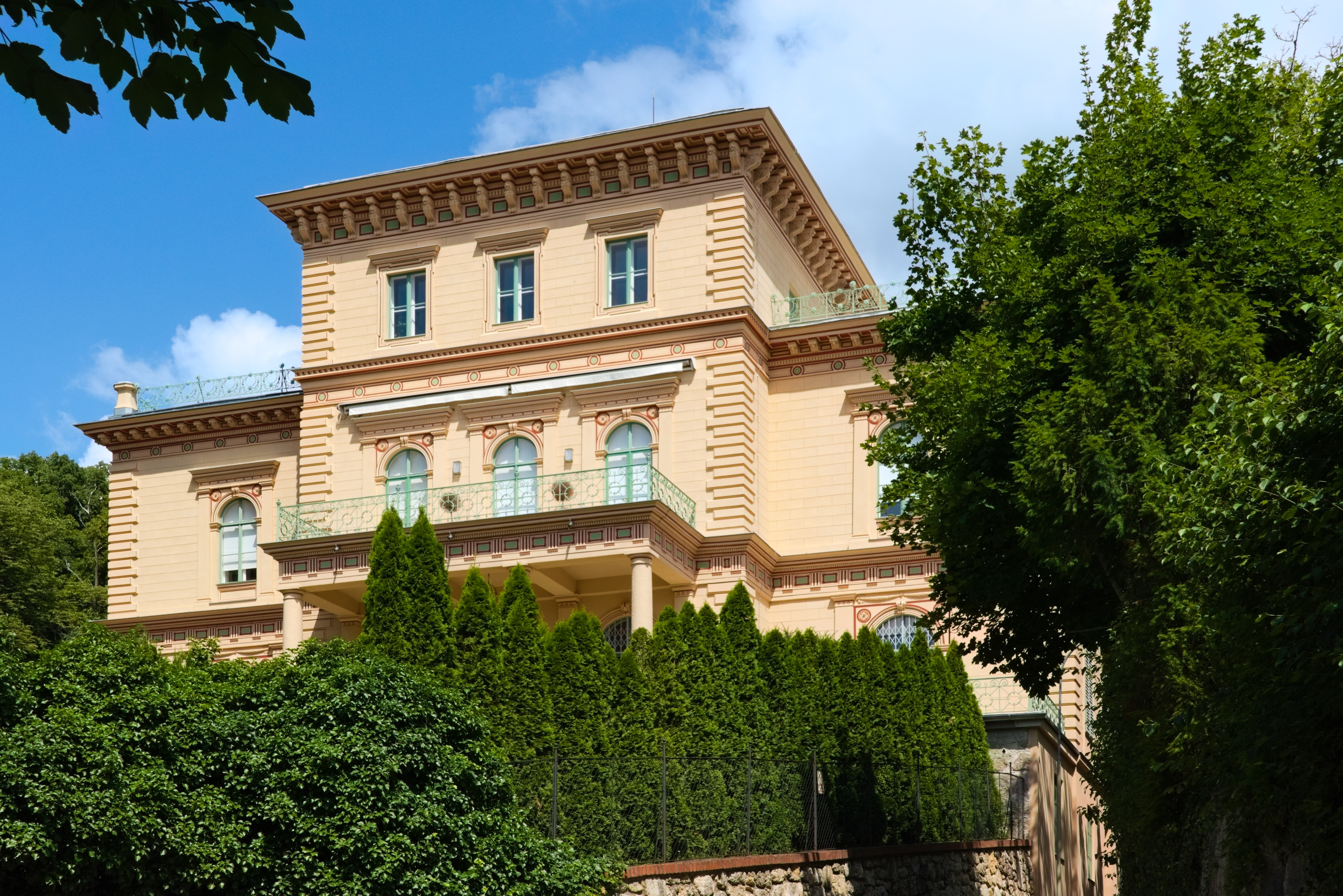 Villa Epstein/Rainer, Rainerweg 1, Baden, Lower Austria, Austria.